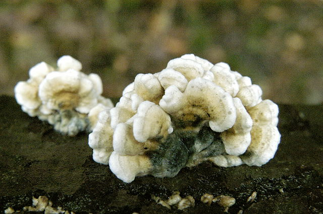 Plicaturopsis crispa from Commanster, Belgium. The determination of the species shown in this picture has been verified.